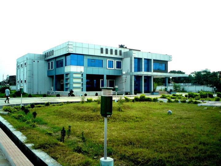 This building has conference rooms, faculty chambers and laboratories of Computer Sciences department of IIT Patna.